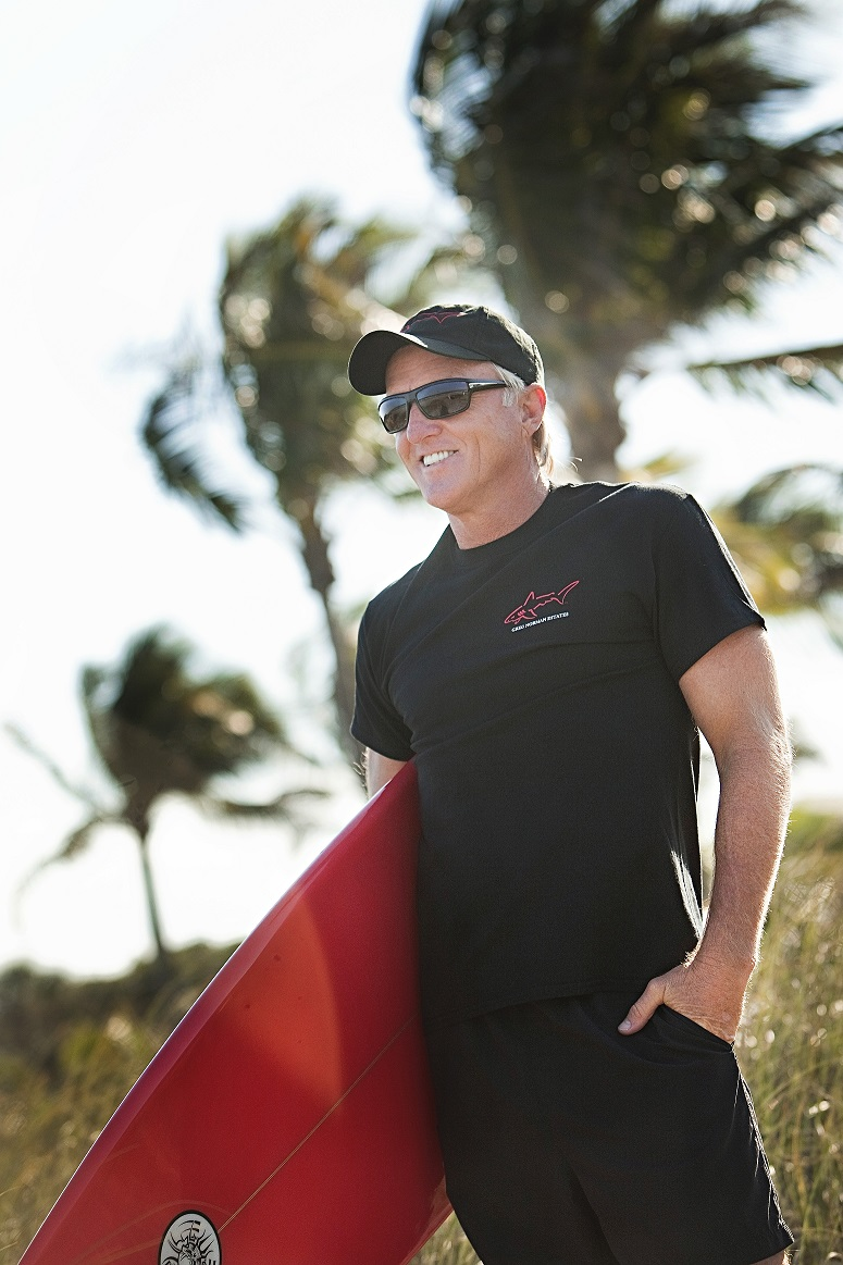 Norman surfing in Jupiter, FL